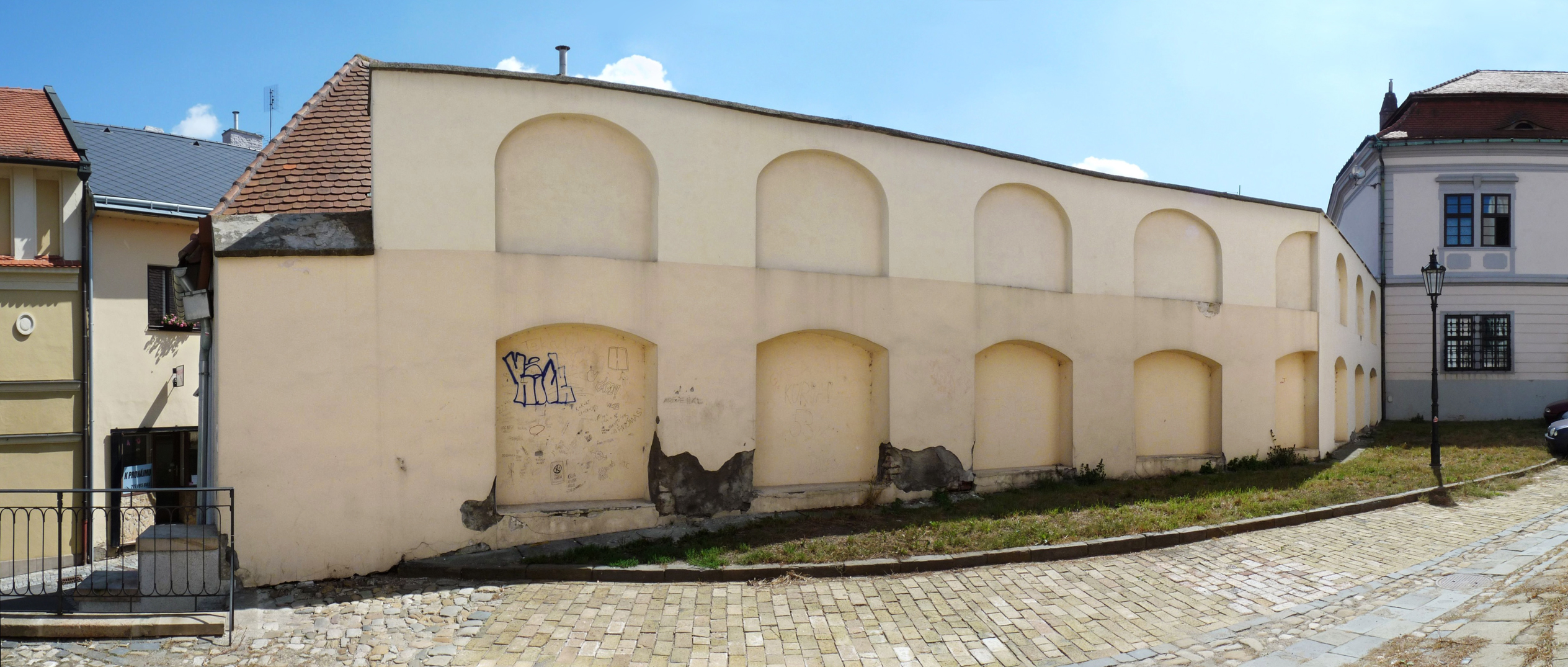 Separation wall of the Jewish ghetto in the town of Kroměříž, Zlín Region, Czech Republic.